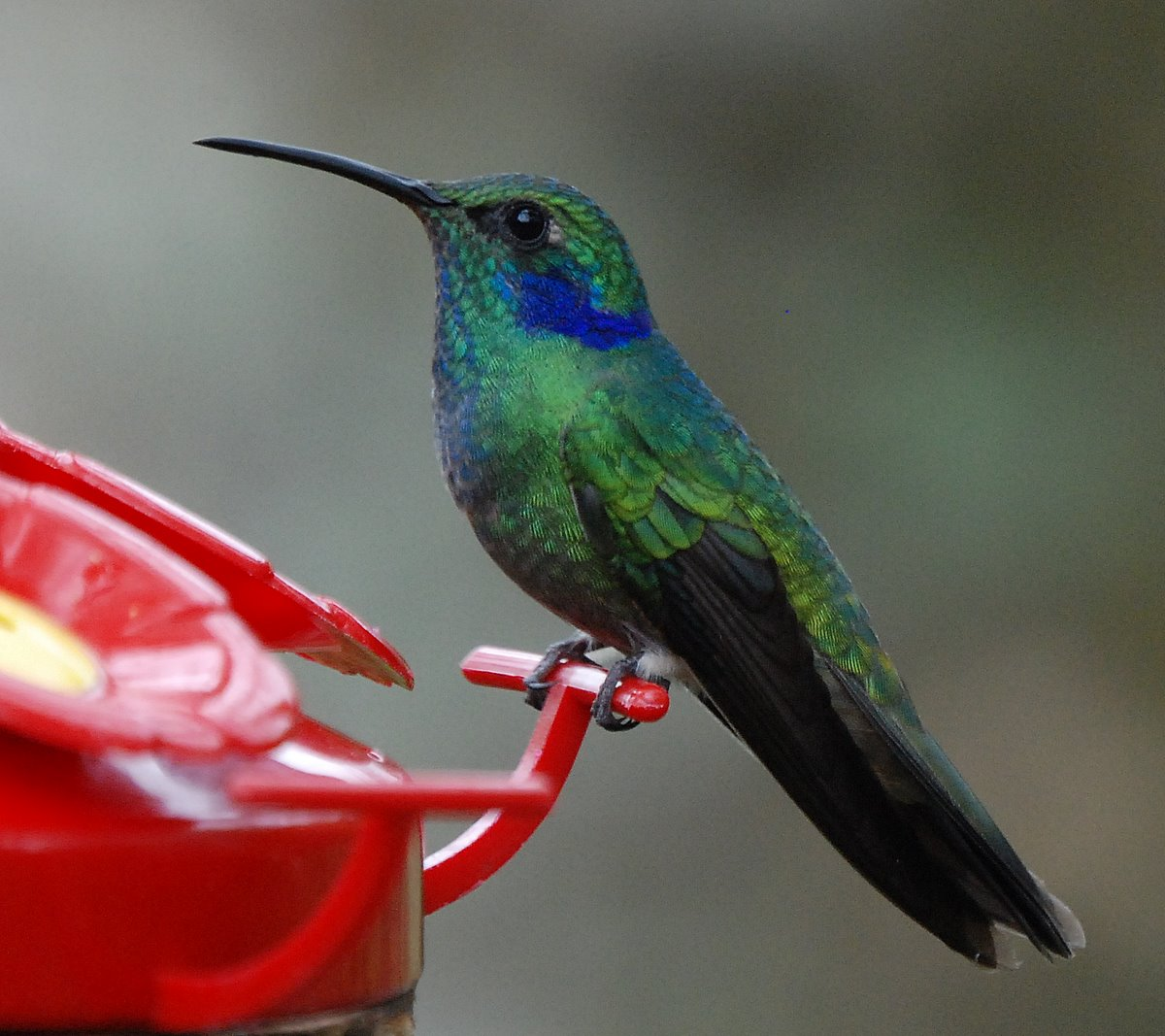 Profile of a Green Violetear. Note: This image is not geocoded so may be Colibri cyanotus. Charles (talk) 07:35, 24 July 2019 (UTC)